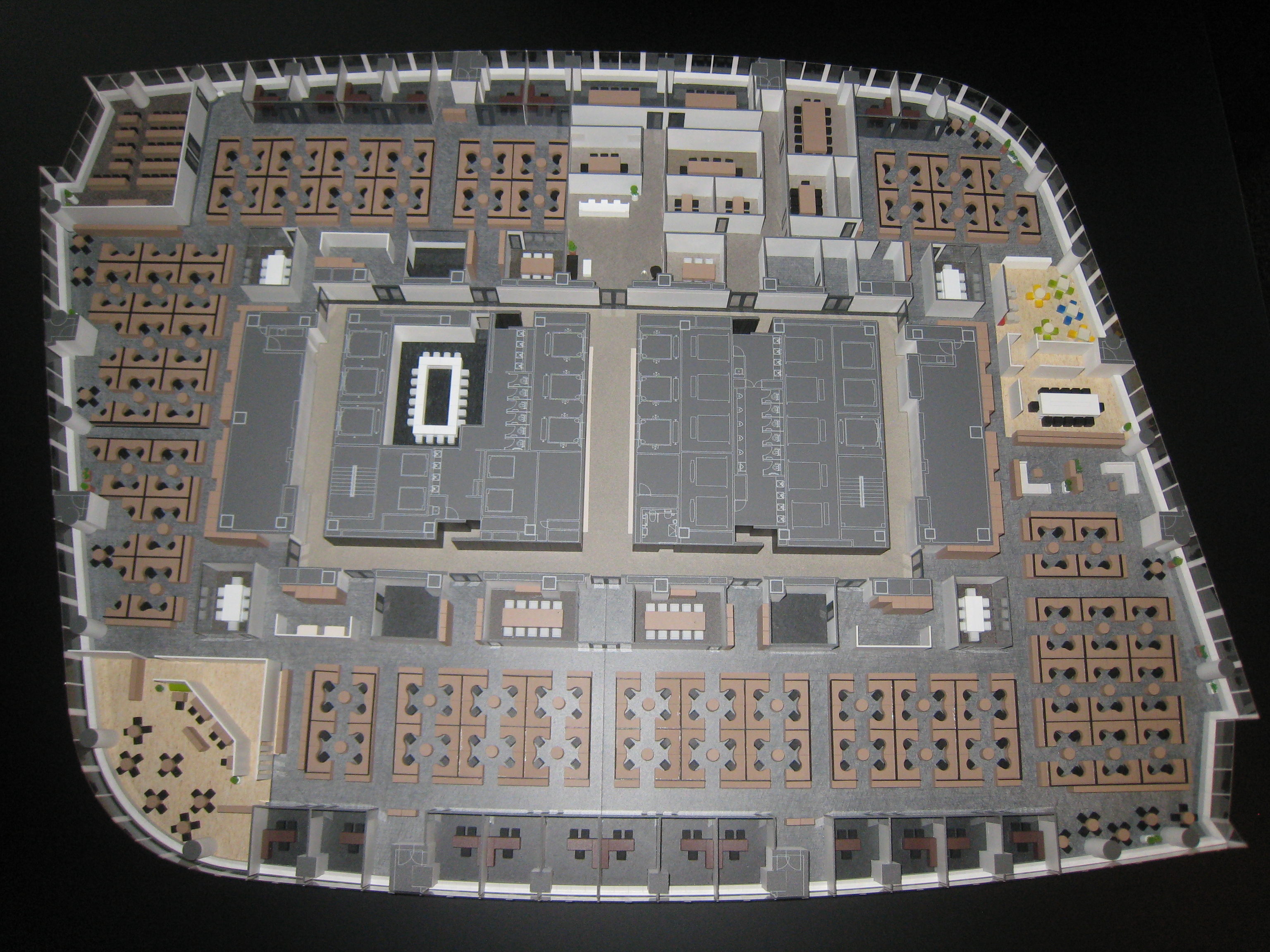 Toranomon Hills model: Office floor